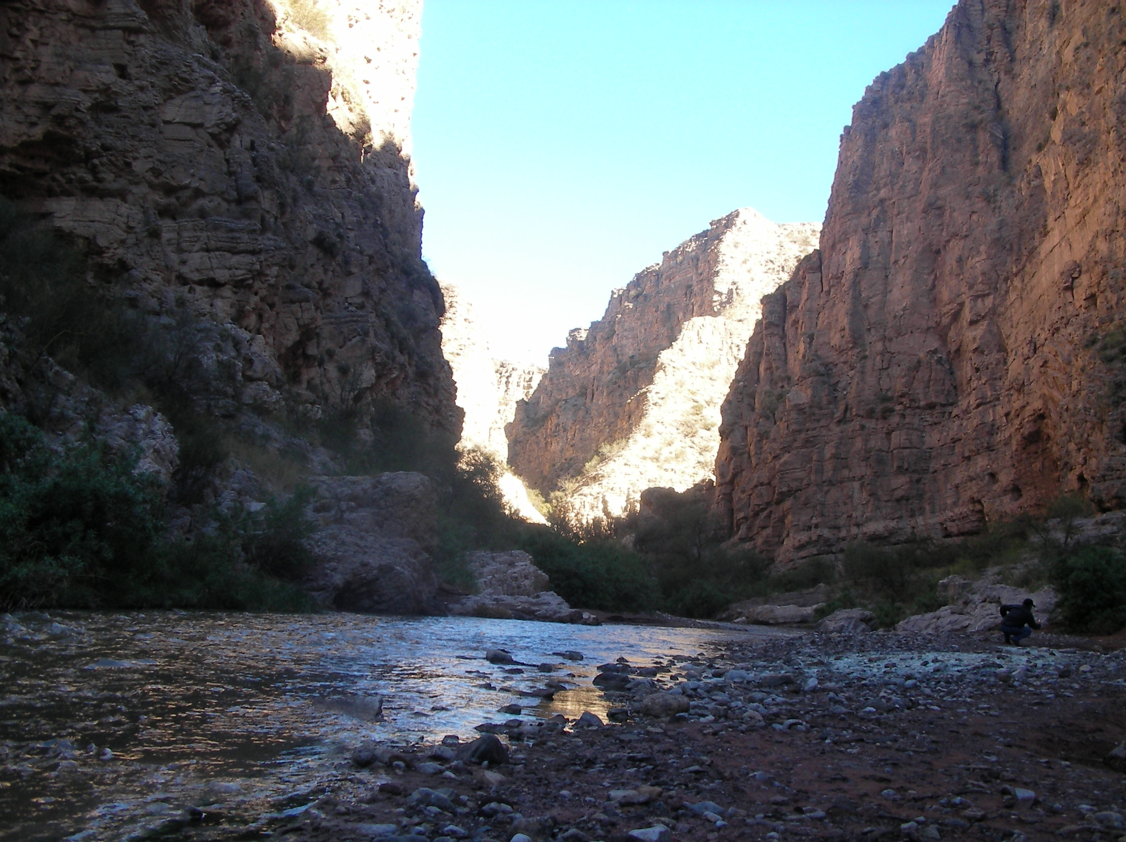 Truck Huaco River, Jachal Departament, San Juan Province, Argentina